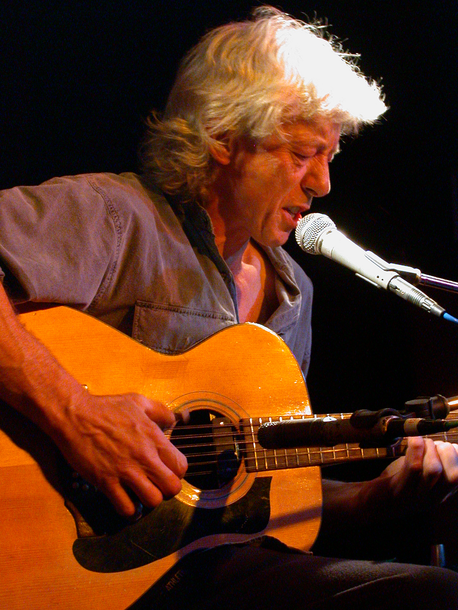 Rog Patterson & Nigel Mazlyn Jones in concert at 'The Roadhouse', in Birmingham, England.